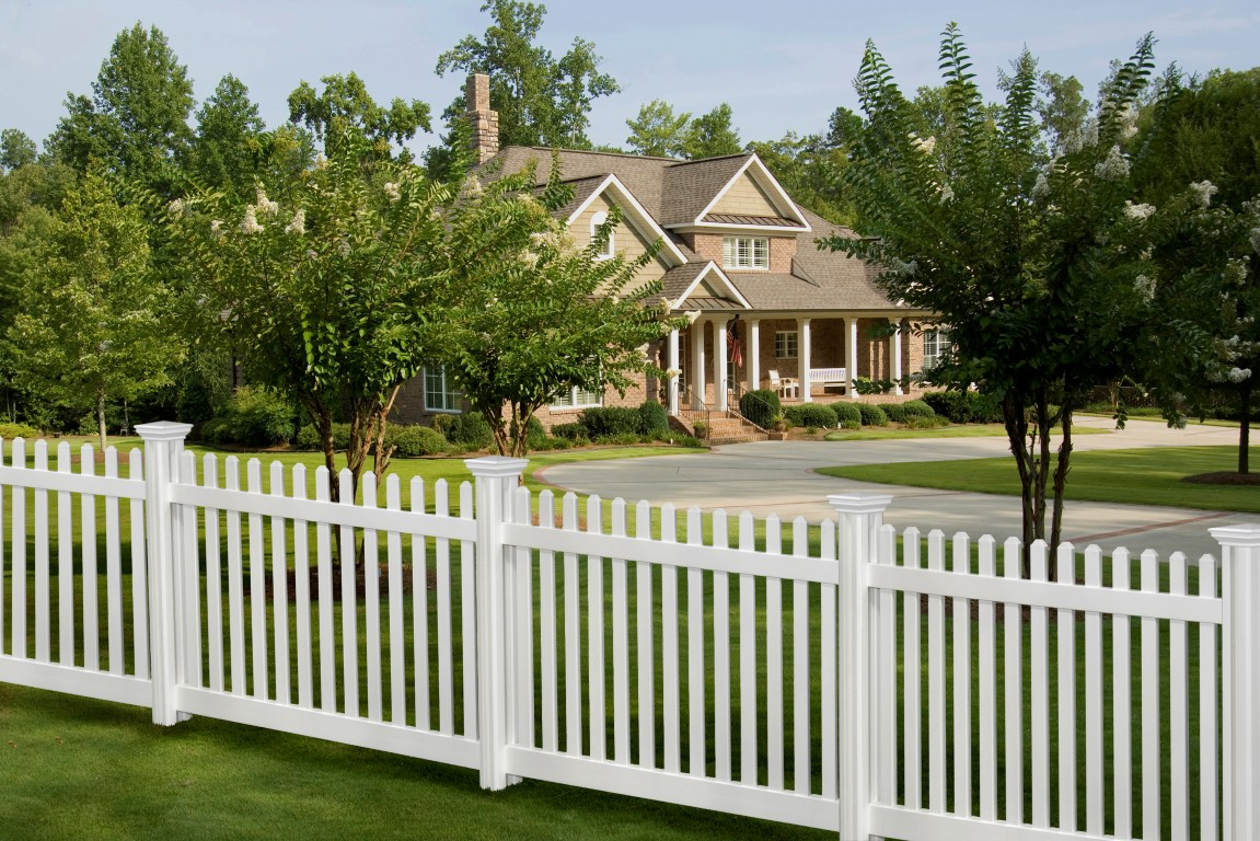 This classic white picket fence is made from PVC, also known as polyvinyl chloride or vinyl.